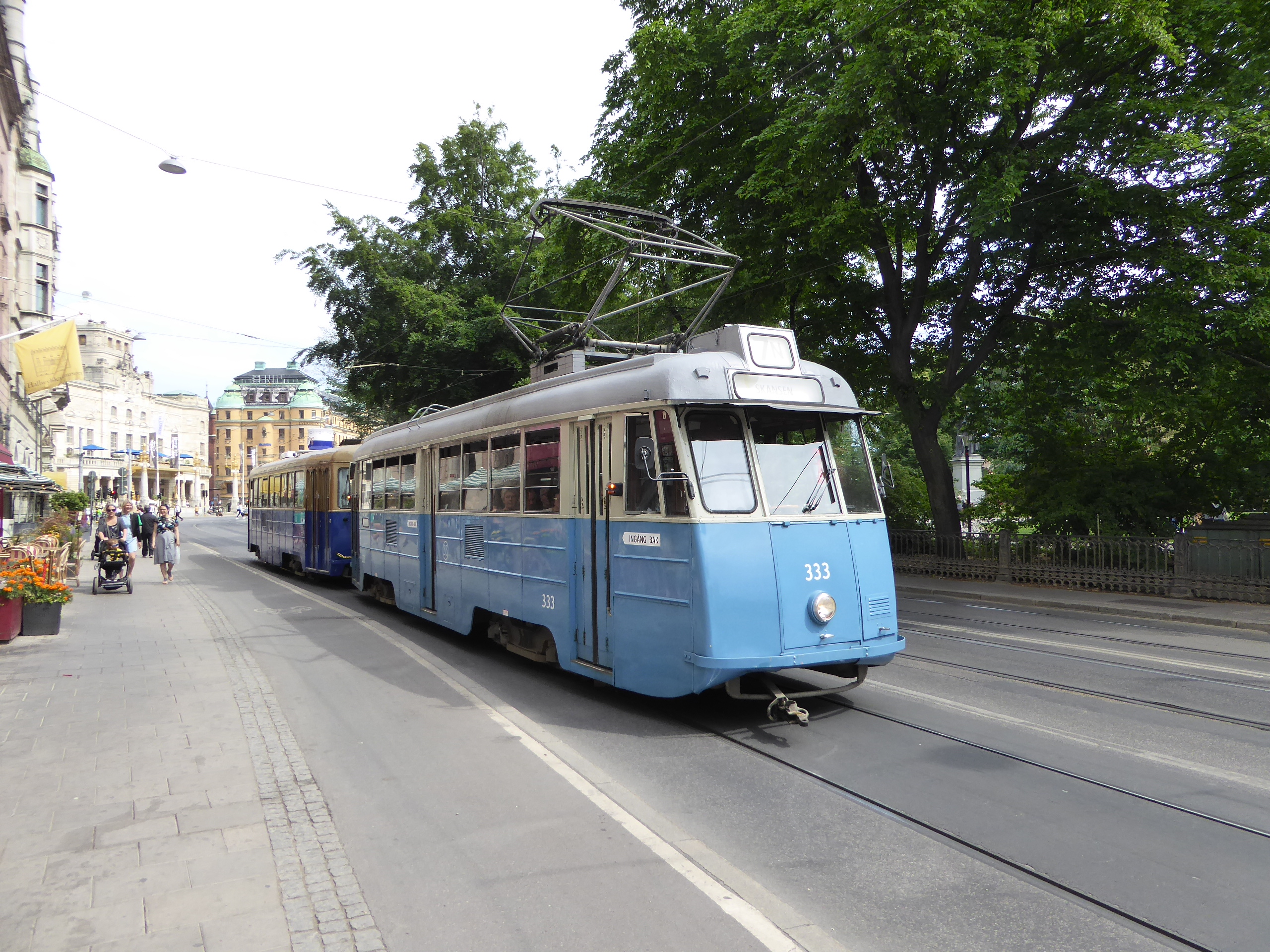 The heritage tram line Djurgårdslinjen in Stockholm. SS A31 333 from 1947 og SS B31C 618 from 1952 on Hamngatan.